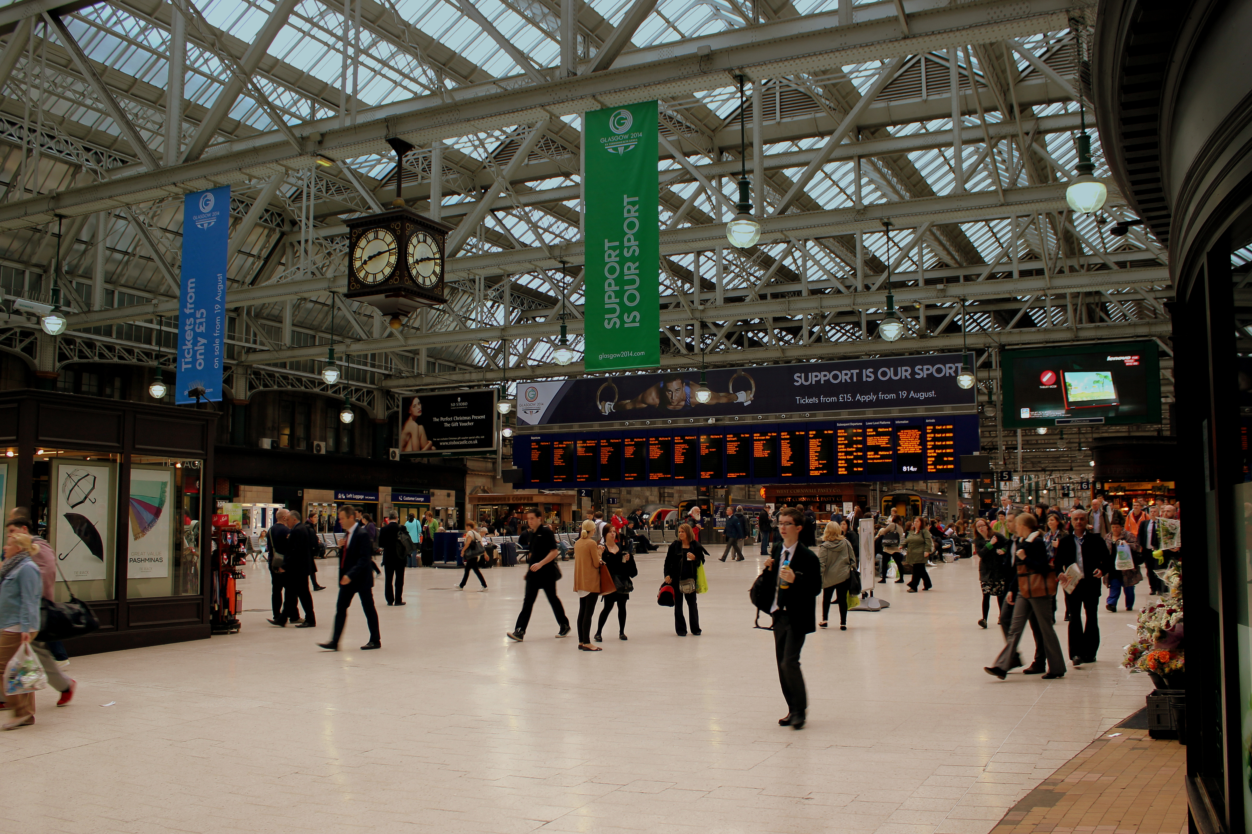 GLASGOW CENTRAL STATION SEP 2013